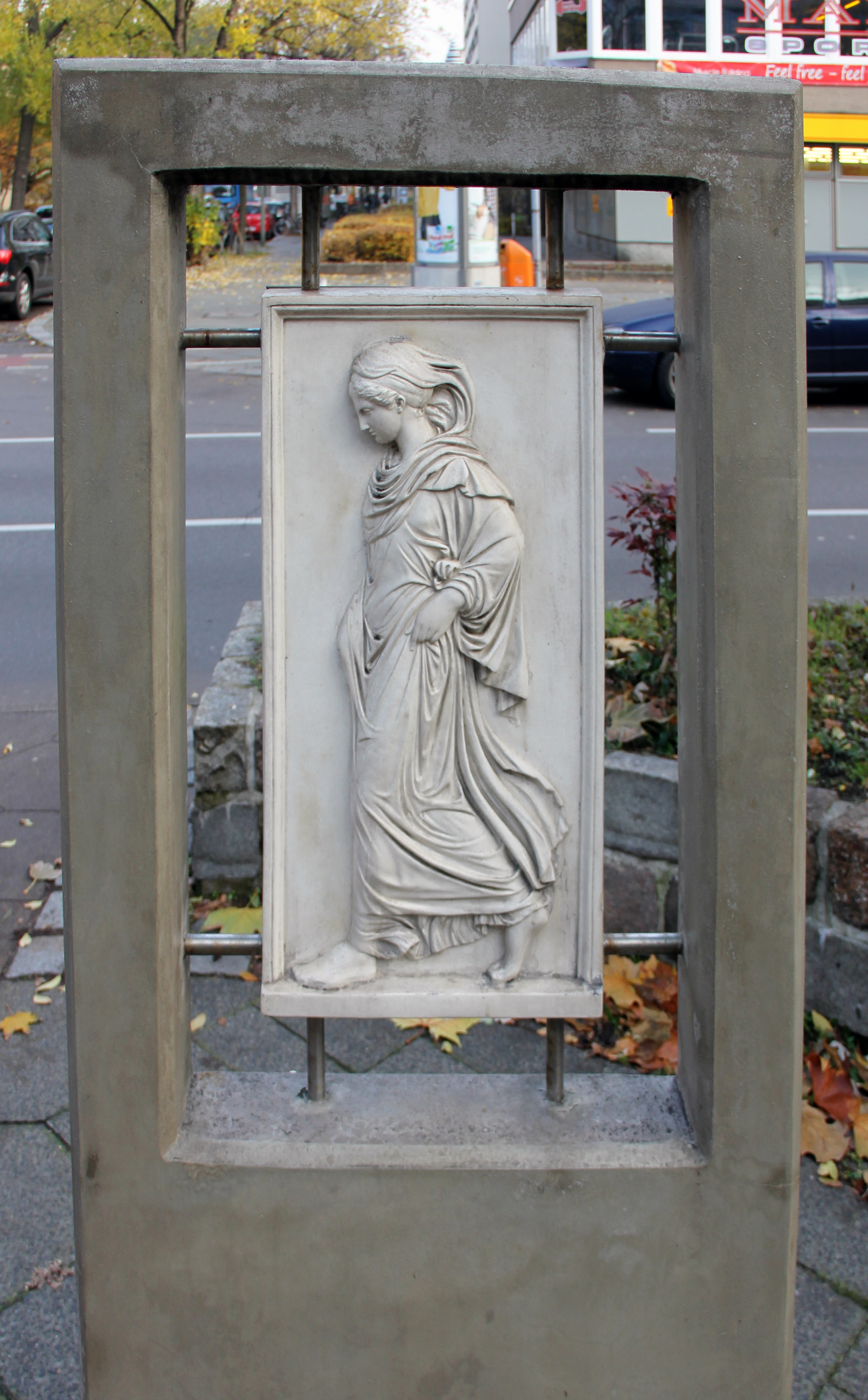 Memorial plaque, Gradiva, Kurfürstenstraße 116, Berlin-Schöneberg, Germany